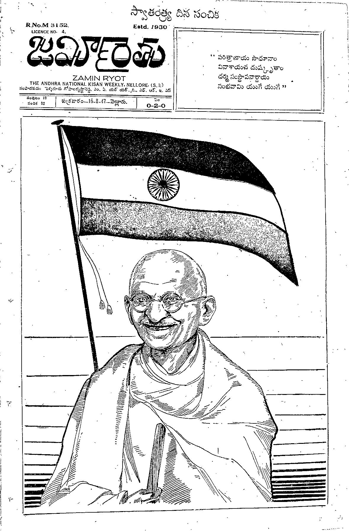 This is first page of Independence Day Issue of Zamin Ryotu